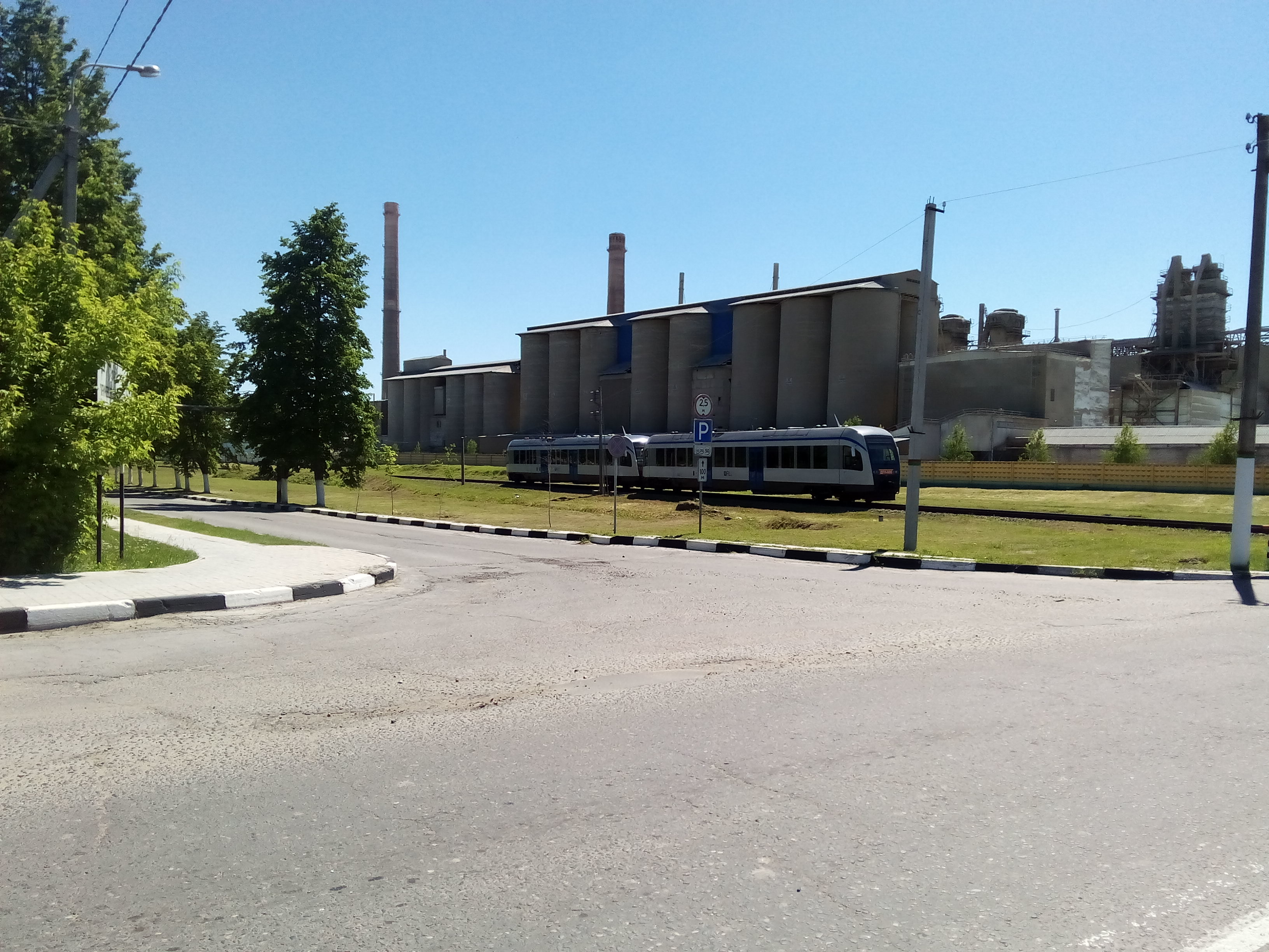 Cement plant in Krichev and railcar DP-1 (Pesa 620M)